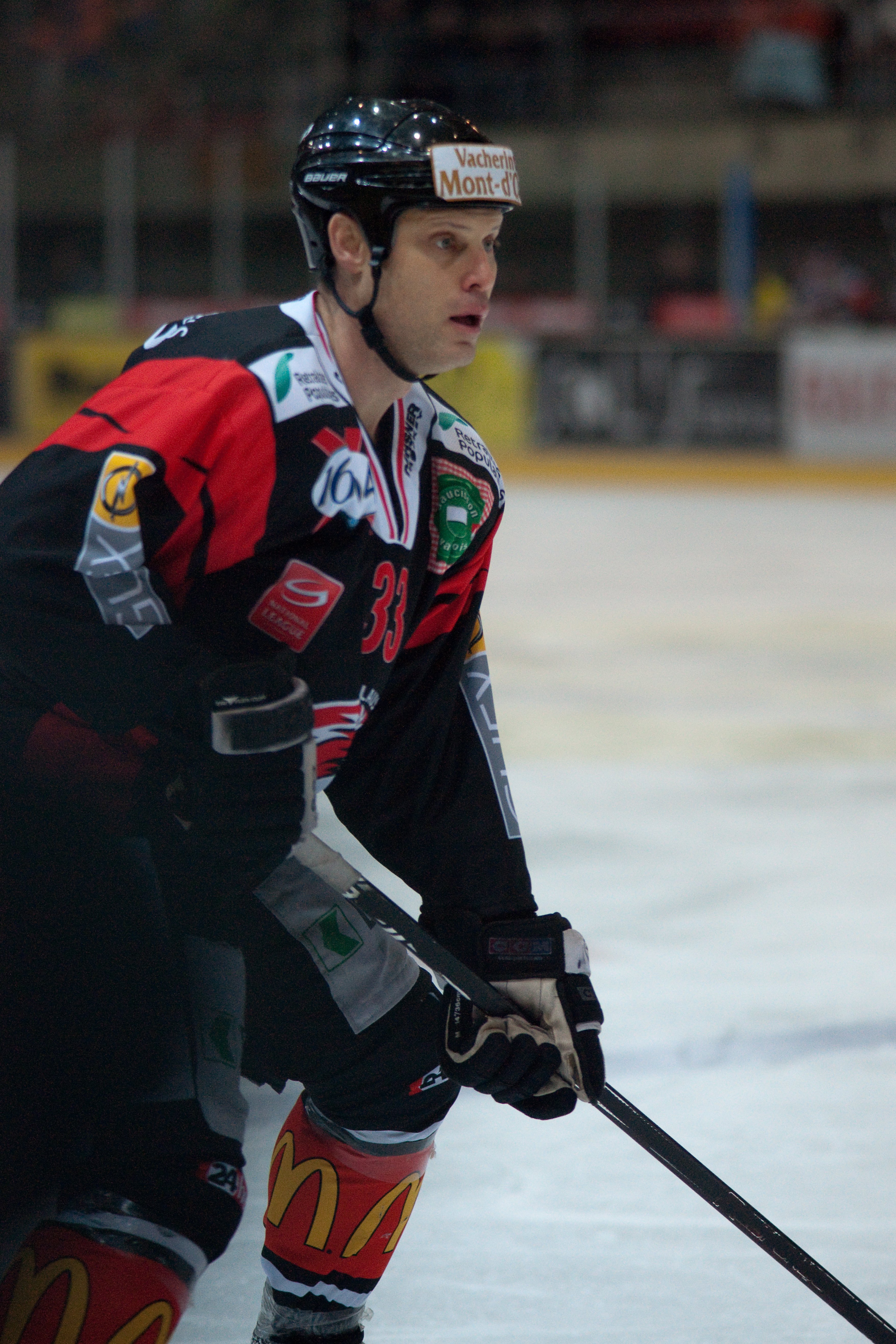 The making of this document was supported by Wikimedia CH. (Submit your project!) For all the files concerned, please see the category Supported by Wikimedia CH.